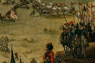 Peter Snayers, Vista caballera del Sitio de Breda (partial view)